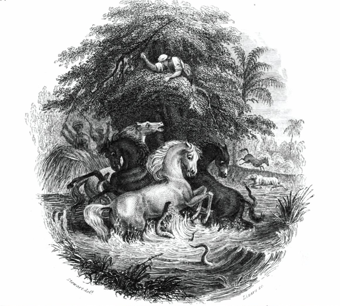 Electric eel, battle with Horses